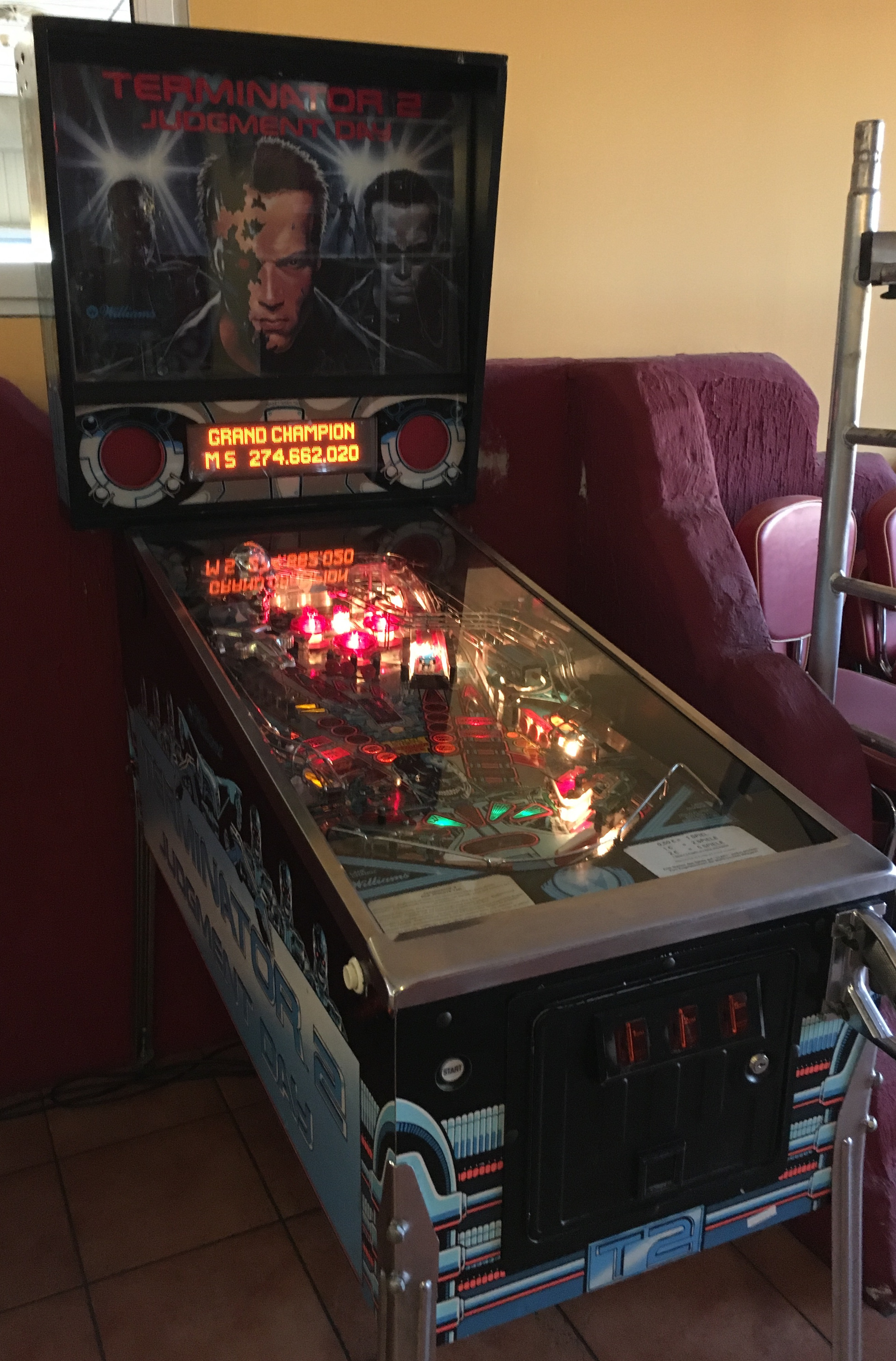 Terminator 2 Pinball